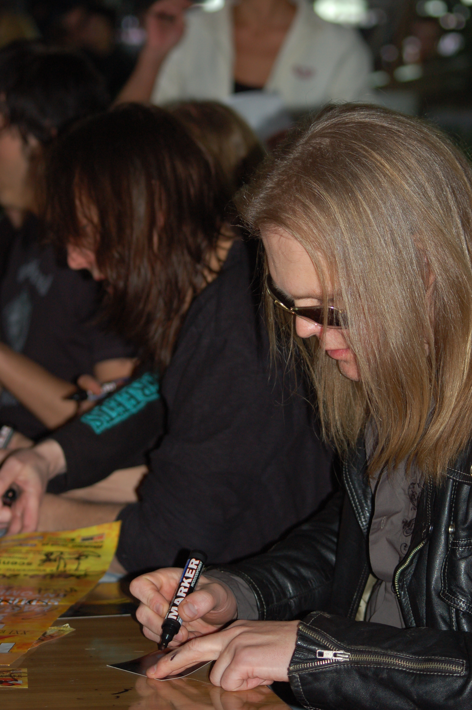 Jørn Lande during Metalmania 2007 festival